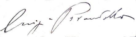 Signature of the Italian writer Luigi Pirandello (1867–1936).